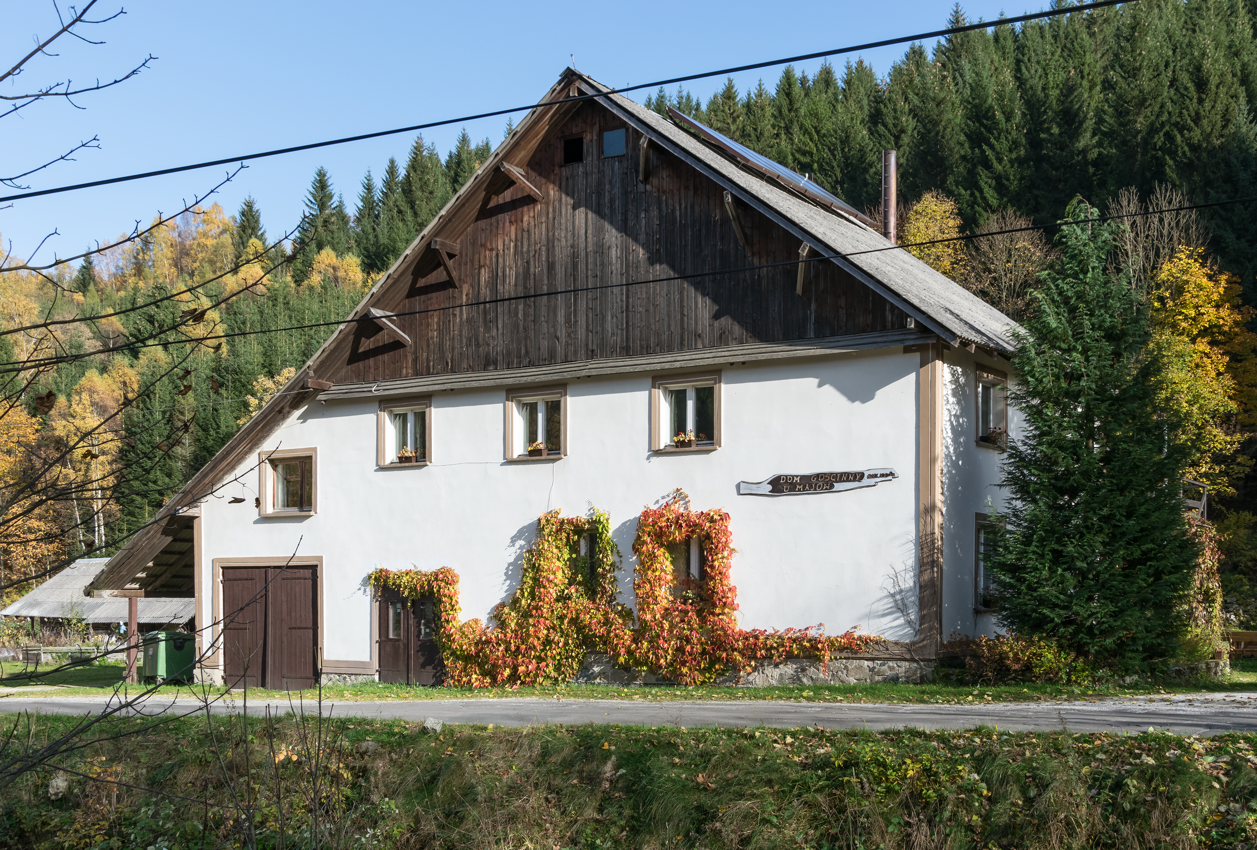 House No. 5a in Bielice